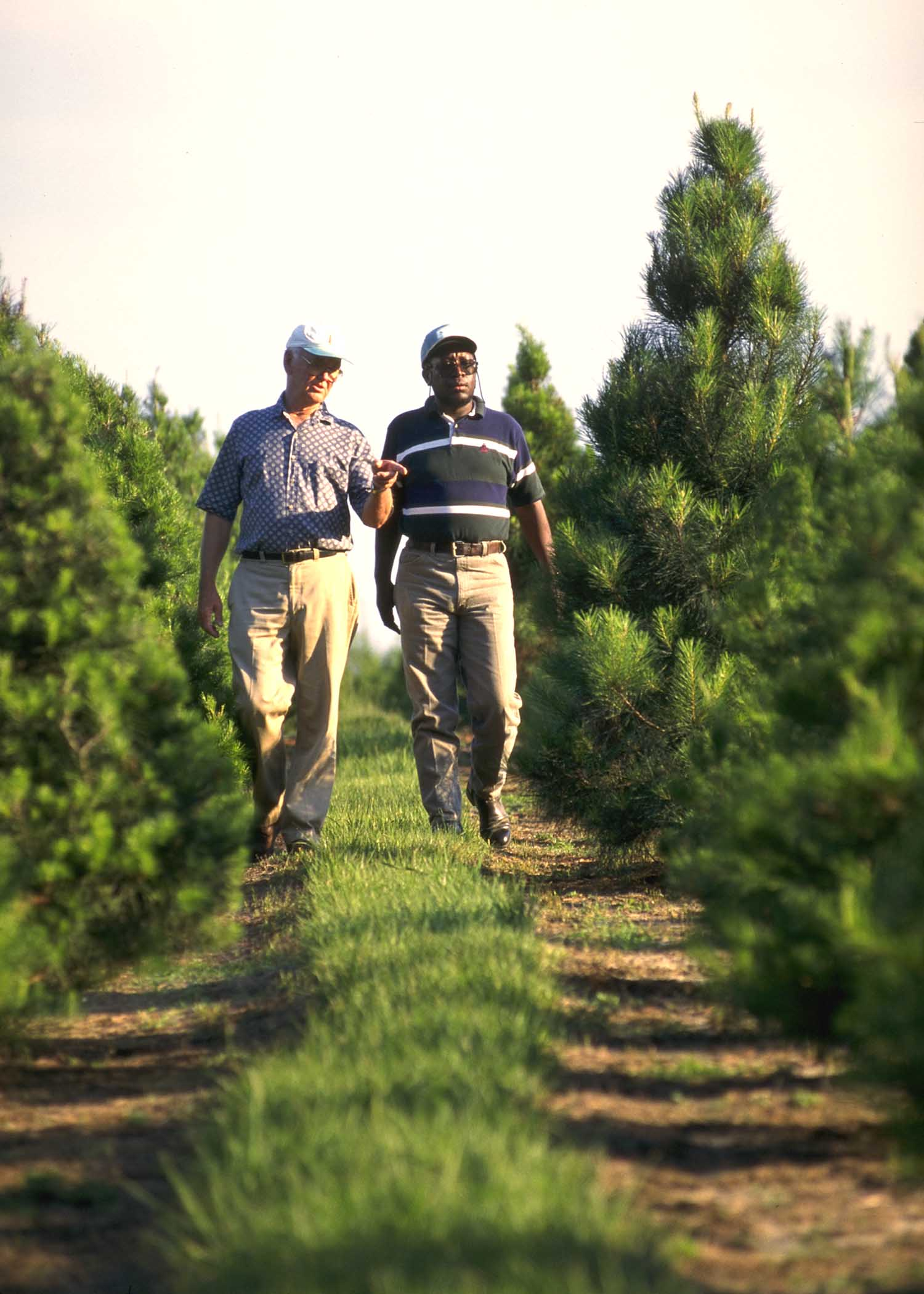 Landowner (left) explains the tree pruning process for Christmas trees to Charlie Conerly (right), NRCS RC&D Coordinator at a Christmas tree farm in Sneads, Florida, United States [Slide 97CS3080]